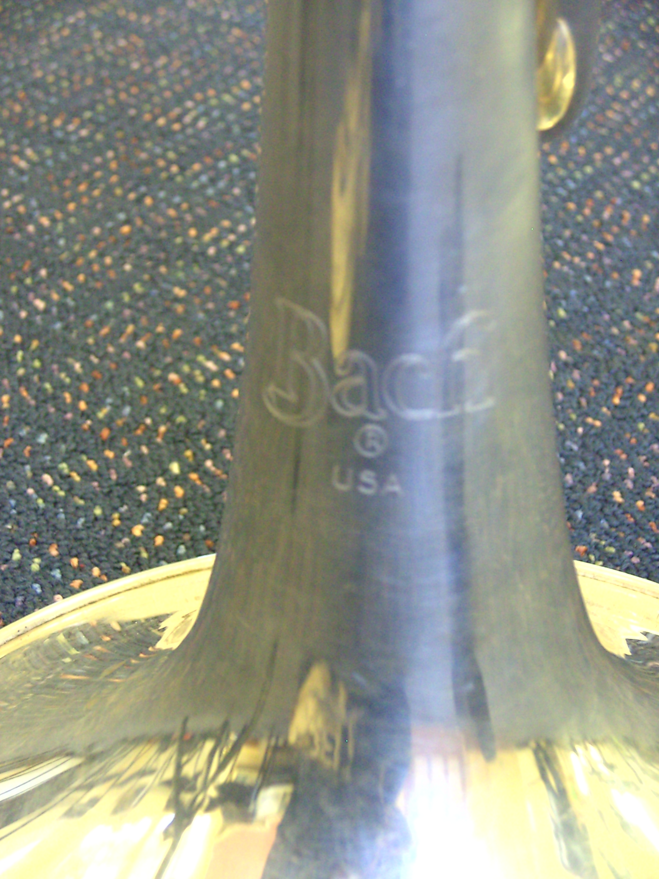 Vincent Bach Corporation maker's mark on a Mellophonium.